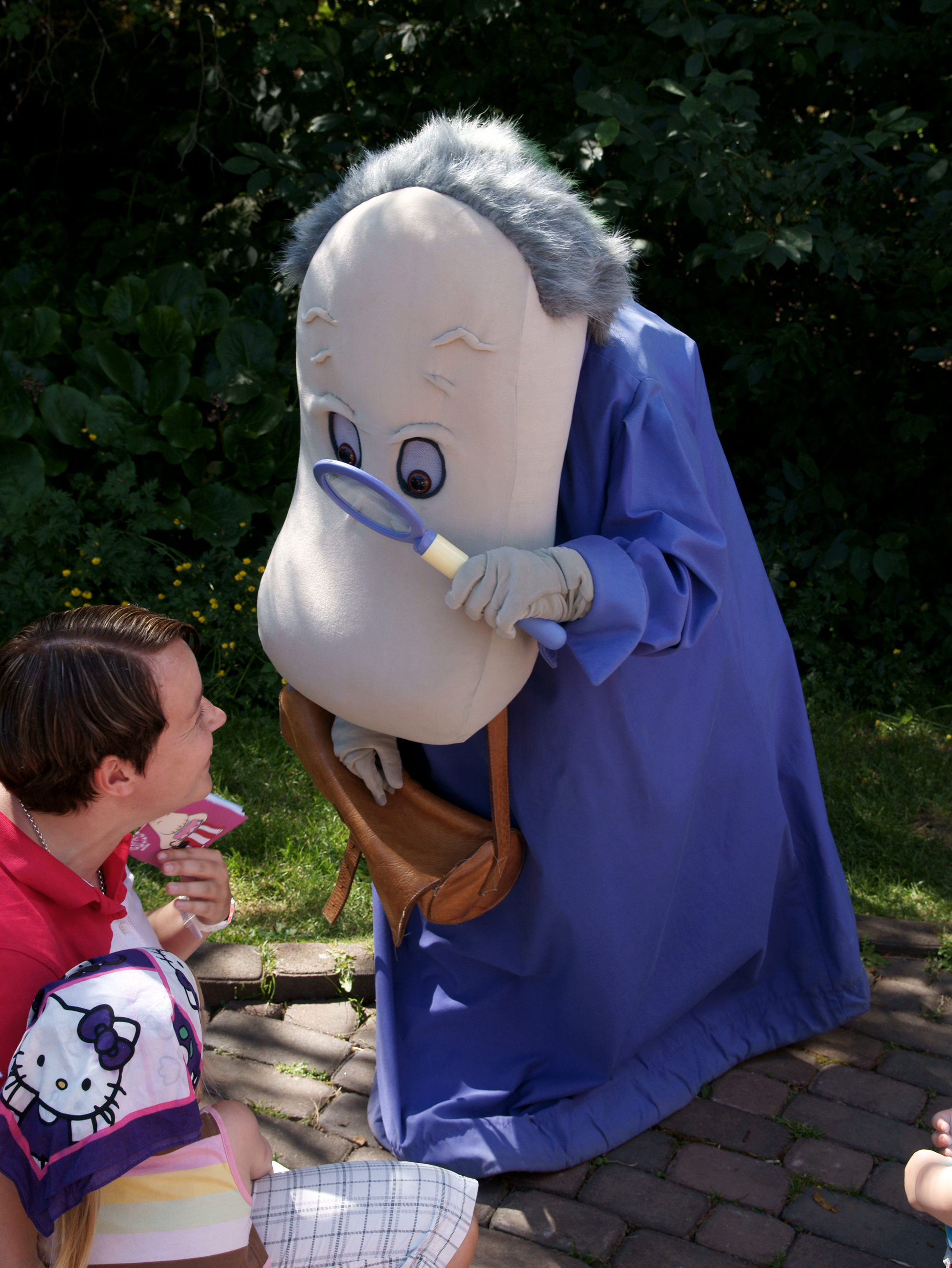 Hemulen in Muumimaailma, Naantali.